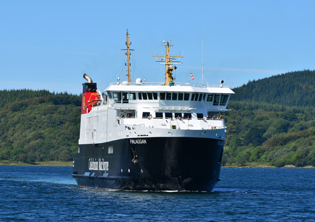 MV Finlaggan approaching Kennacraig